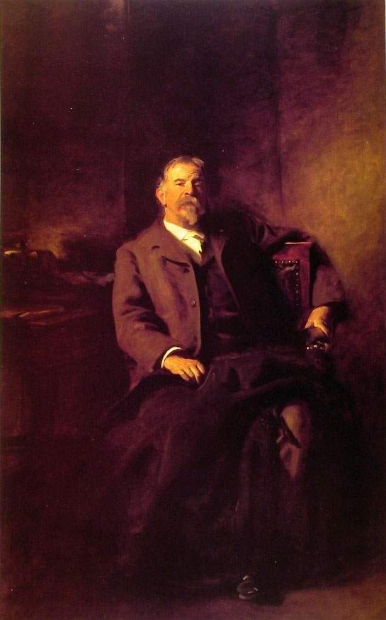 Henry Lee Higginson, founder of the Boston Symphony Orchestra. This oil painting is in the Fogg Art Museum, Cambridge, Massachusetts. I believe that this image has never been protected by copyright; even if it were, however, the copyright would have expired by now. The painting is not in the Fogg Art Museum but rather in the Barker Center for the Humanities at Harvard. There is also a copy of this painting at Symphony Hall in Boston.